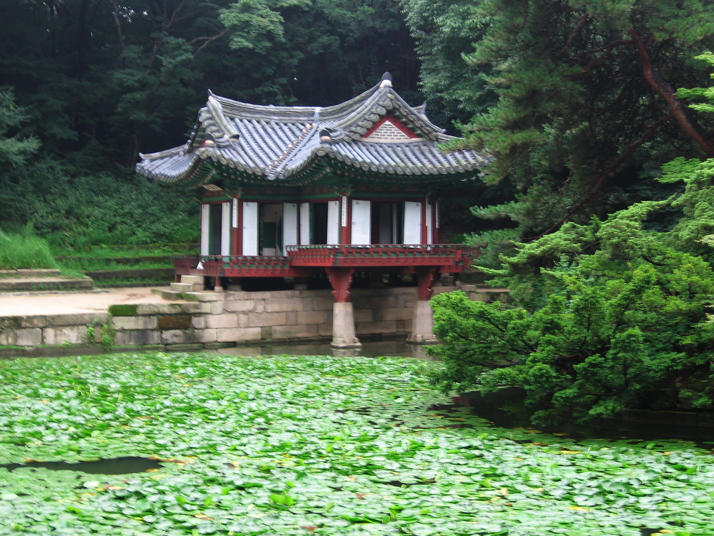 The pavillion Buyong-jeon in the secret garden Biwon in Changdeok-gung palace in Seoul. Taken on 2005-September-08 by myself (Johannes Barre, iGEL (talk) 21:51, 2 October 2005 (UTC))